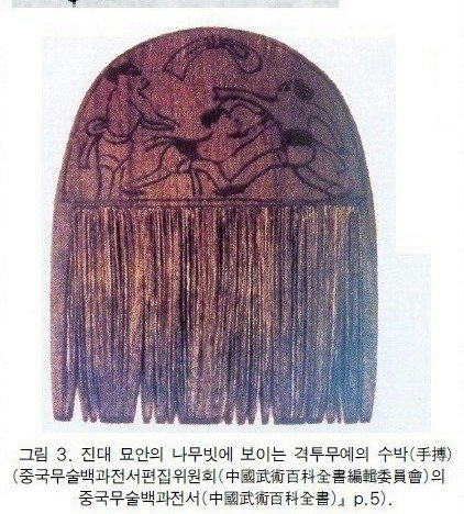 Chinese Shoubo/Subak Qin Dynasty archaeological picture on a comb